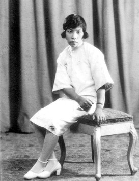 Lu Yin writer. She died in 1934